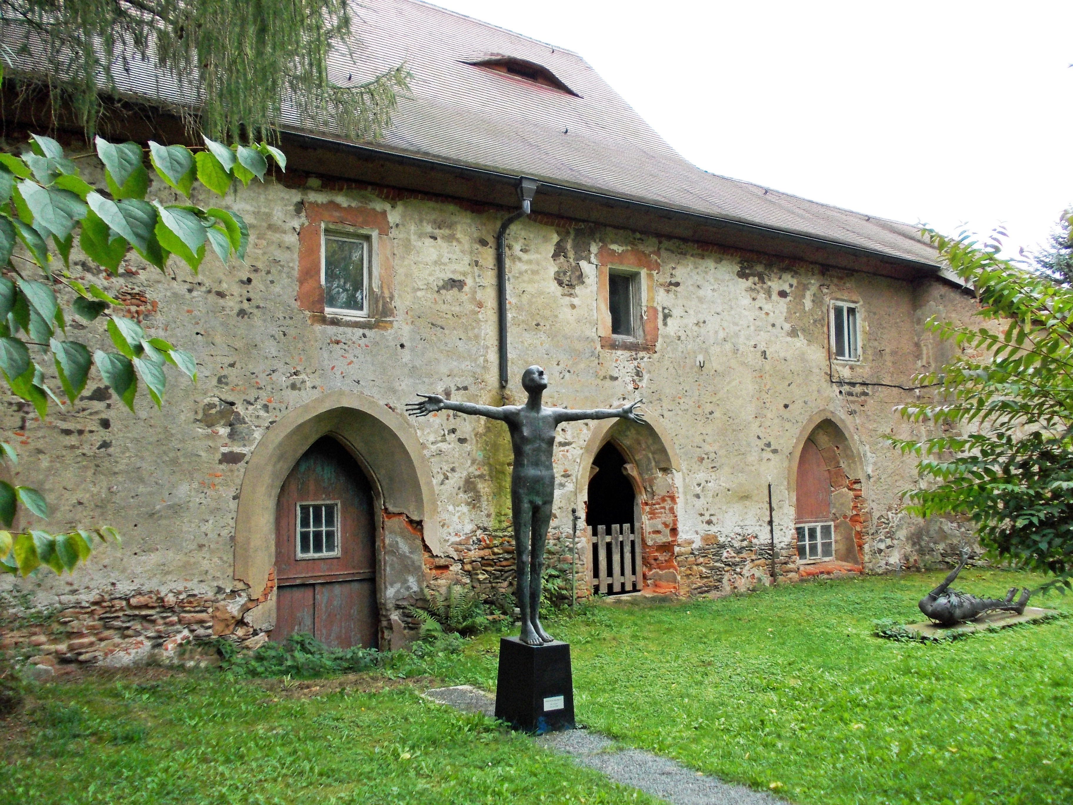 Remains of the cloister of the former Mildenfurth monastery with sculpture by Volkmar Kühn (Wünschendorf/Elster, Greiz district, Thuringia)